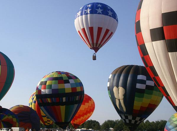 Pennington Balloon Tournament